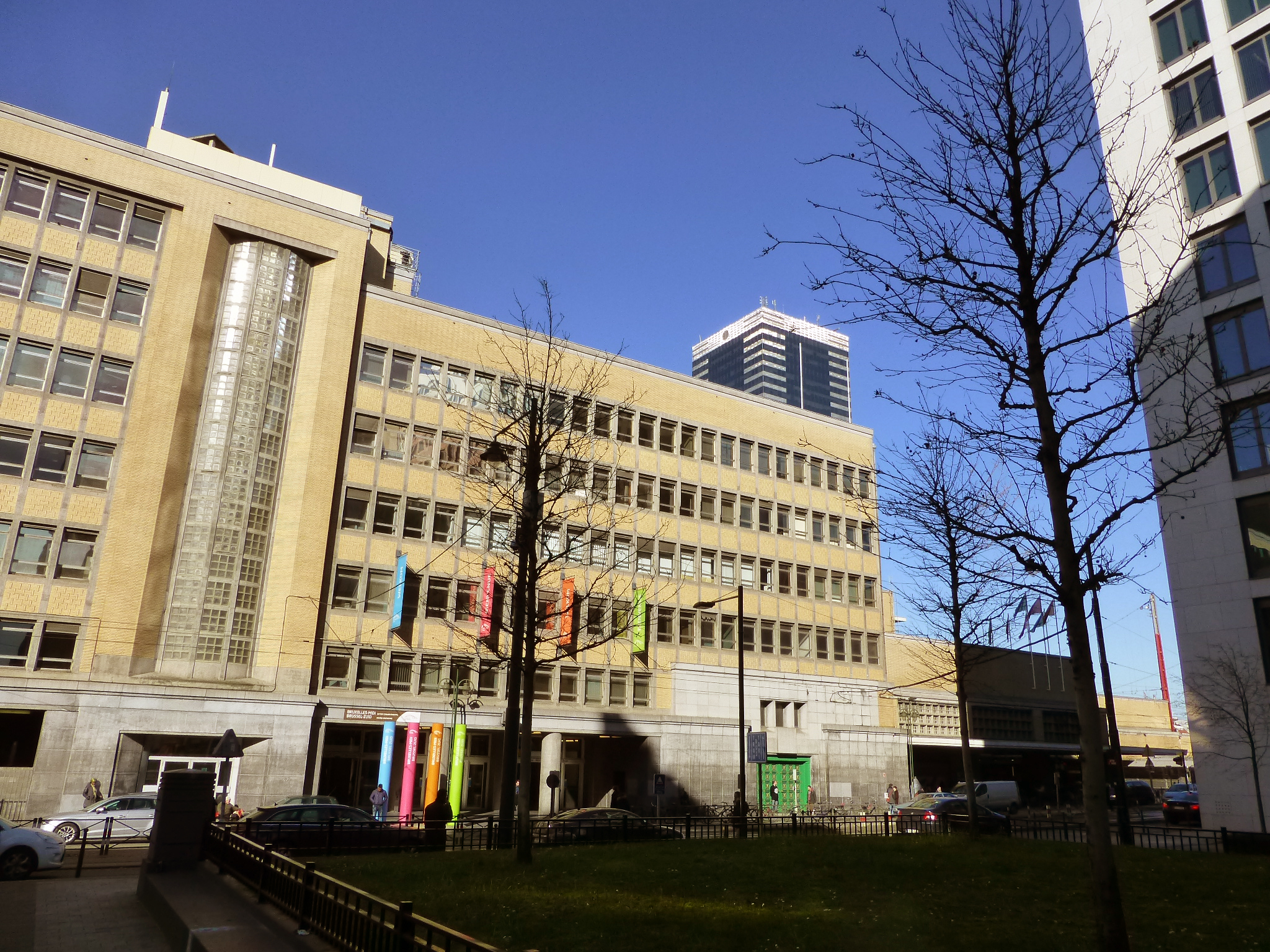 Brussels South Station, viewed from the national side entry, Avenue Fonsny. Note the 4 colours decoration.